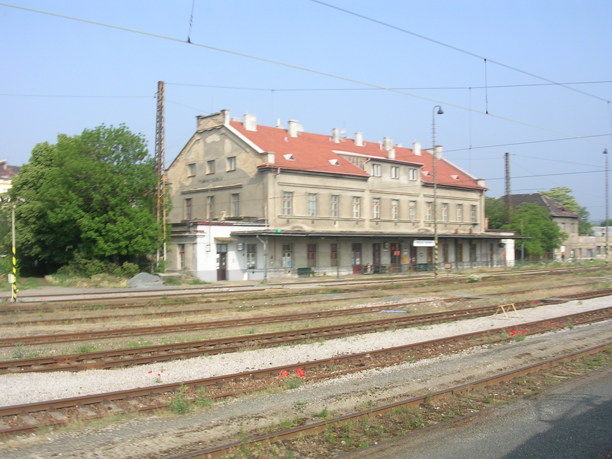 Train station Praha-Bubny, the Czech Republic.